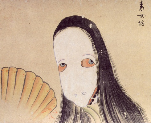 Aonyoubou (青女房, a female ghost who lurks in an abandoned imperial palace) from the Hyakki Yagyō Emaki (百鬼夜行絵巻)